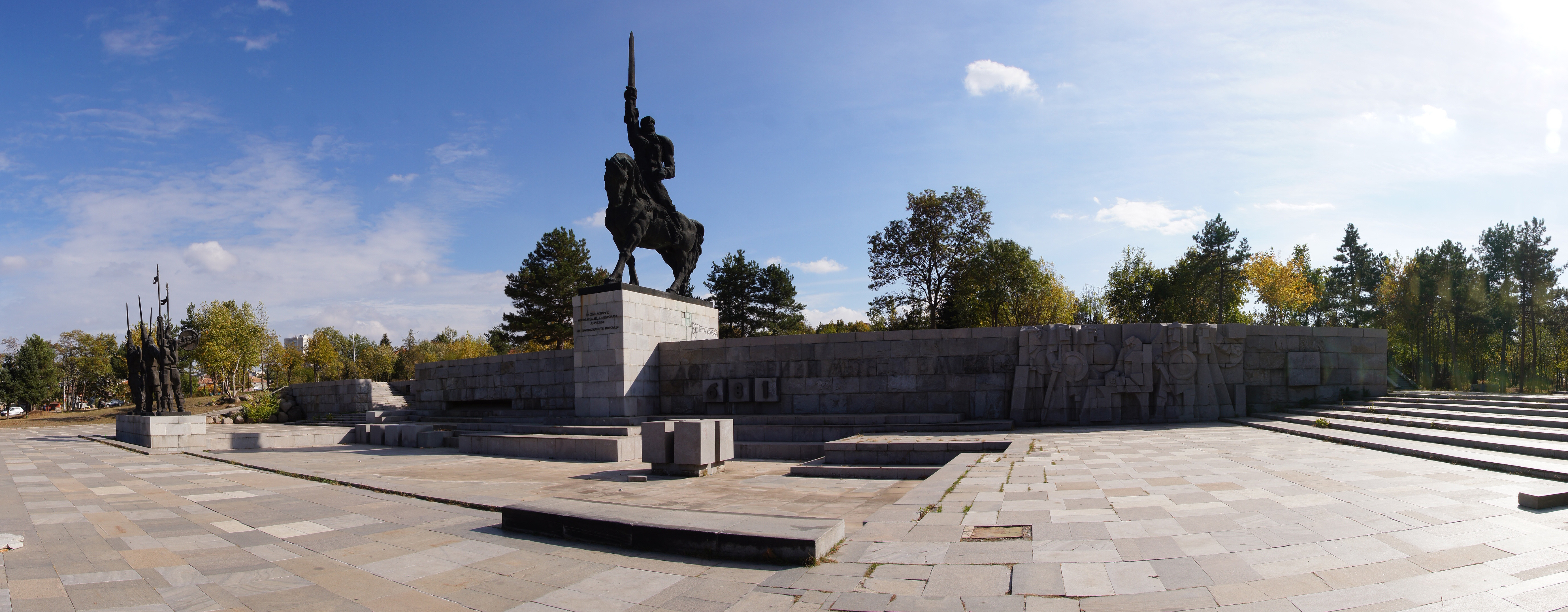 Khan Asparuh monument in Dobrich